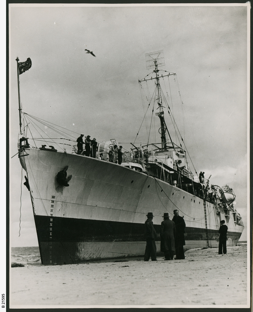 The Australian survey vessel HMAS Barcoo beached on West Beach, South Australia between 11 and 20 April 1948.